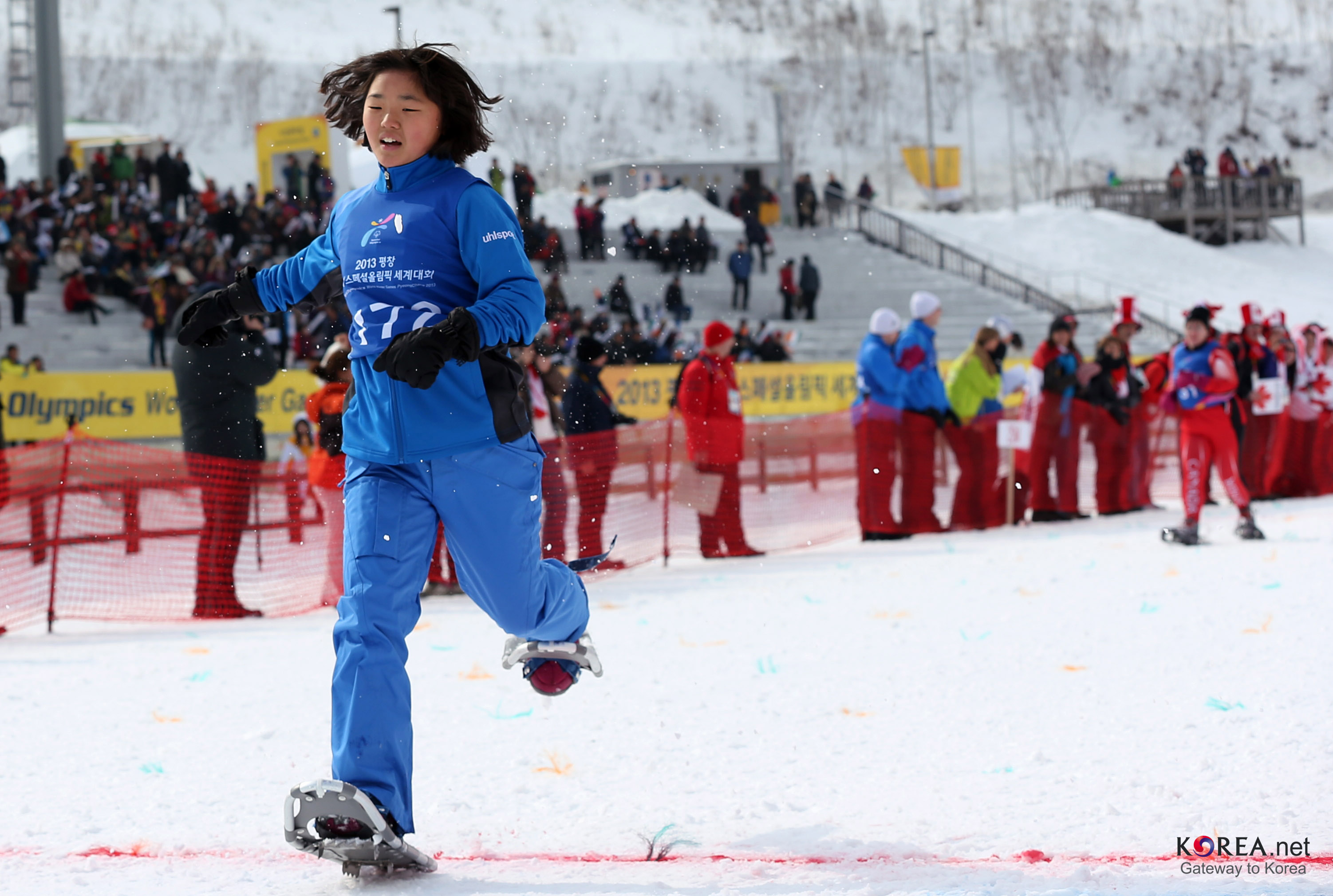 2013 PyeongChang The Special Olympics World Winter Games PyeongChang, Gangwon-Do 2013.01.30. Ministry of Culture, Sports and Tourism Korean Culture and Information Service Jeon Han 2013 평창 동계 스페셜올림픽 세계대회 알펜시아, 평창, 강원도 문화체육관광부 해외문화홍보원 코리아넷 전한